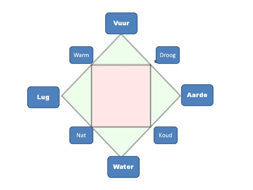 The four elements as described by the Greek philosopher Empedocles.